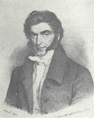 A portrait of Konstantinos Koumas (Place of Birth: Larisa 1777 - 1836 Place of Death: Triest) Member of the Modern Greek Enlightment